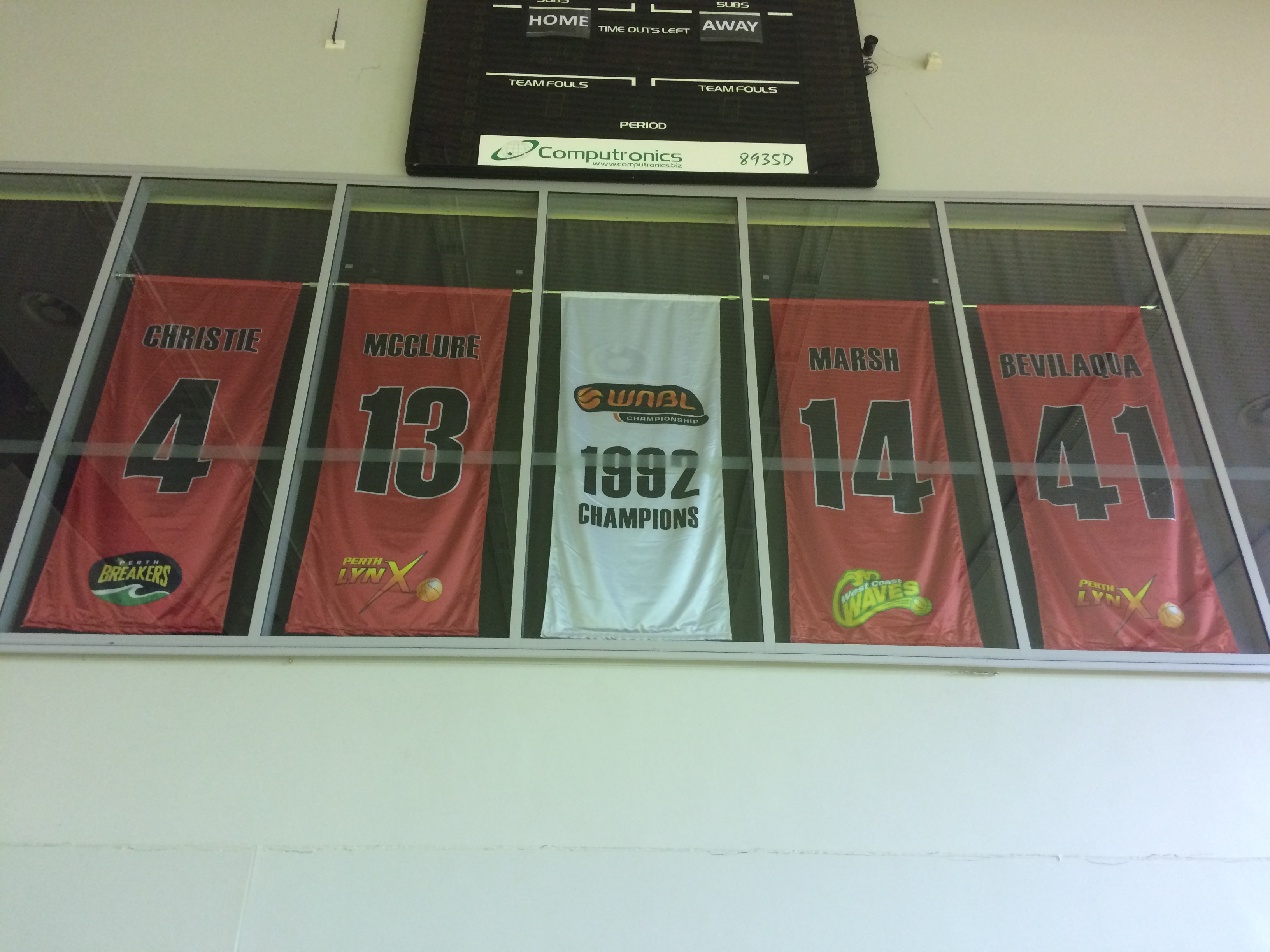 Perth Lynx banners - retired numbers and championship